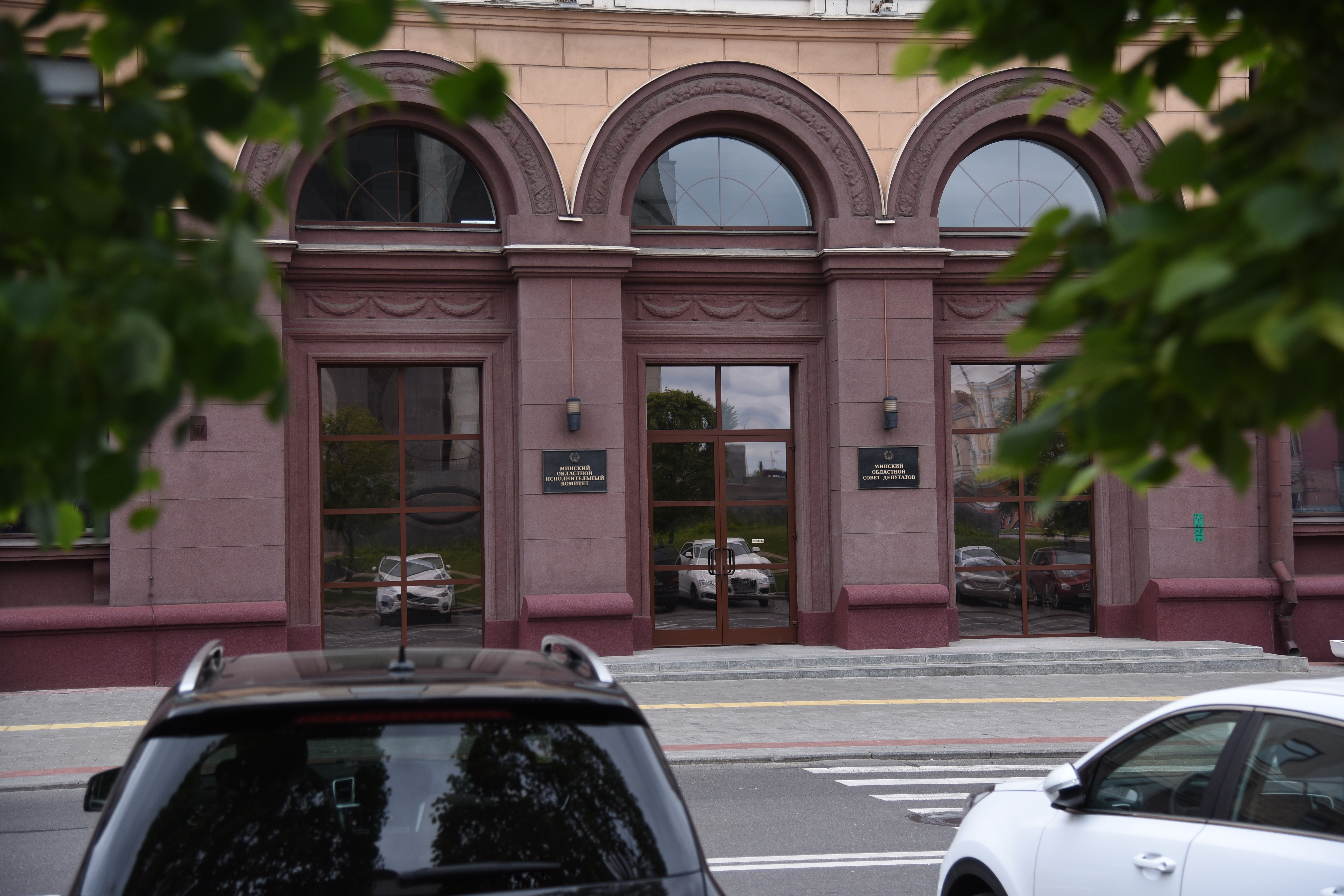 Minsk Oblast Council of Deputies and Minsk Oblast Executive Committee building at Engels 4